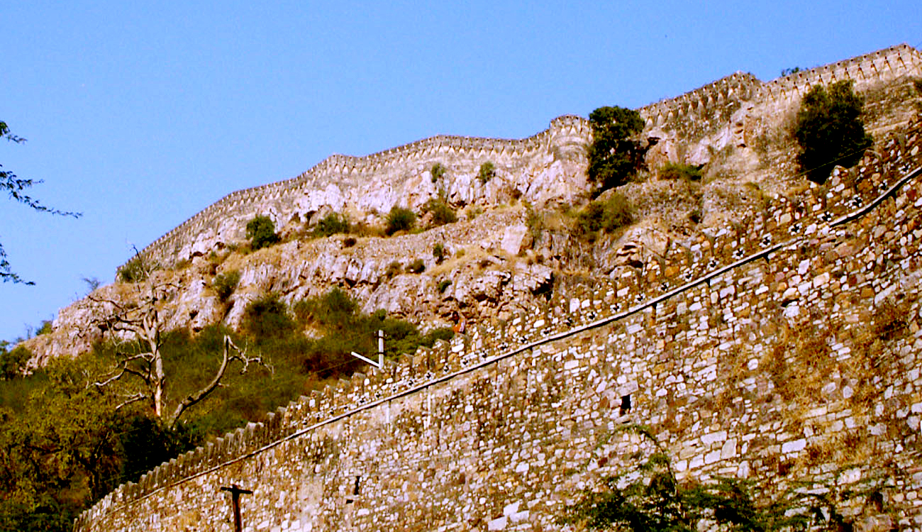 Chittaur Fort